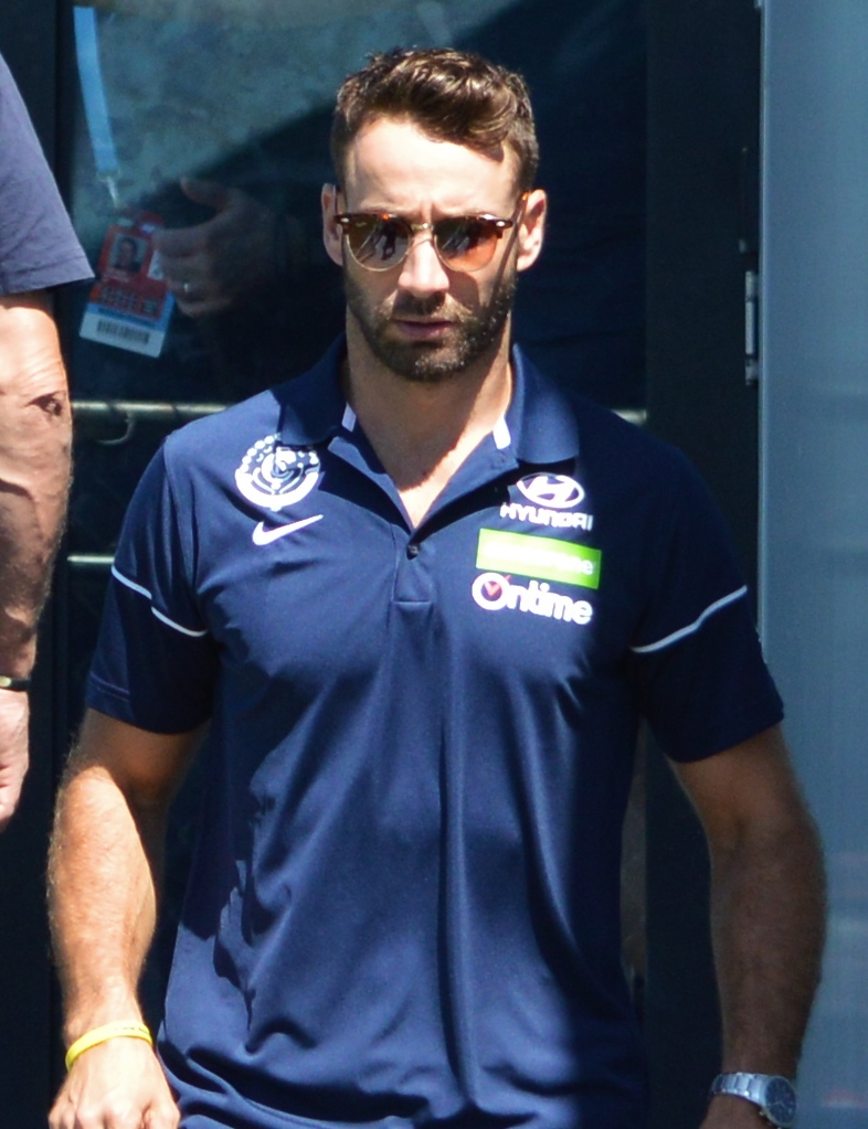 Andrew Walker at a pre-season match in March 2017